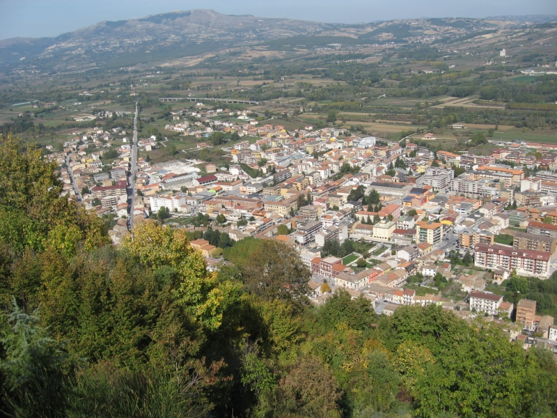 Bojano